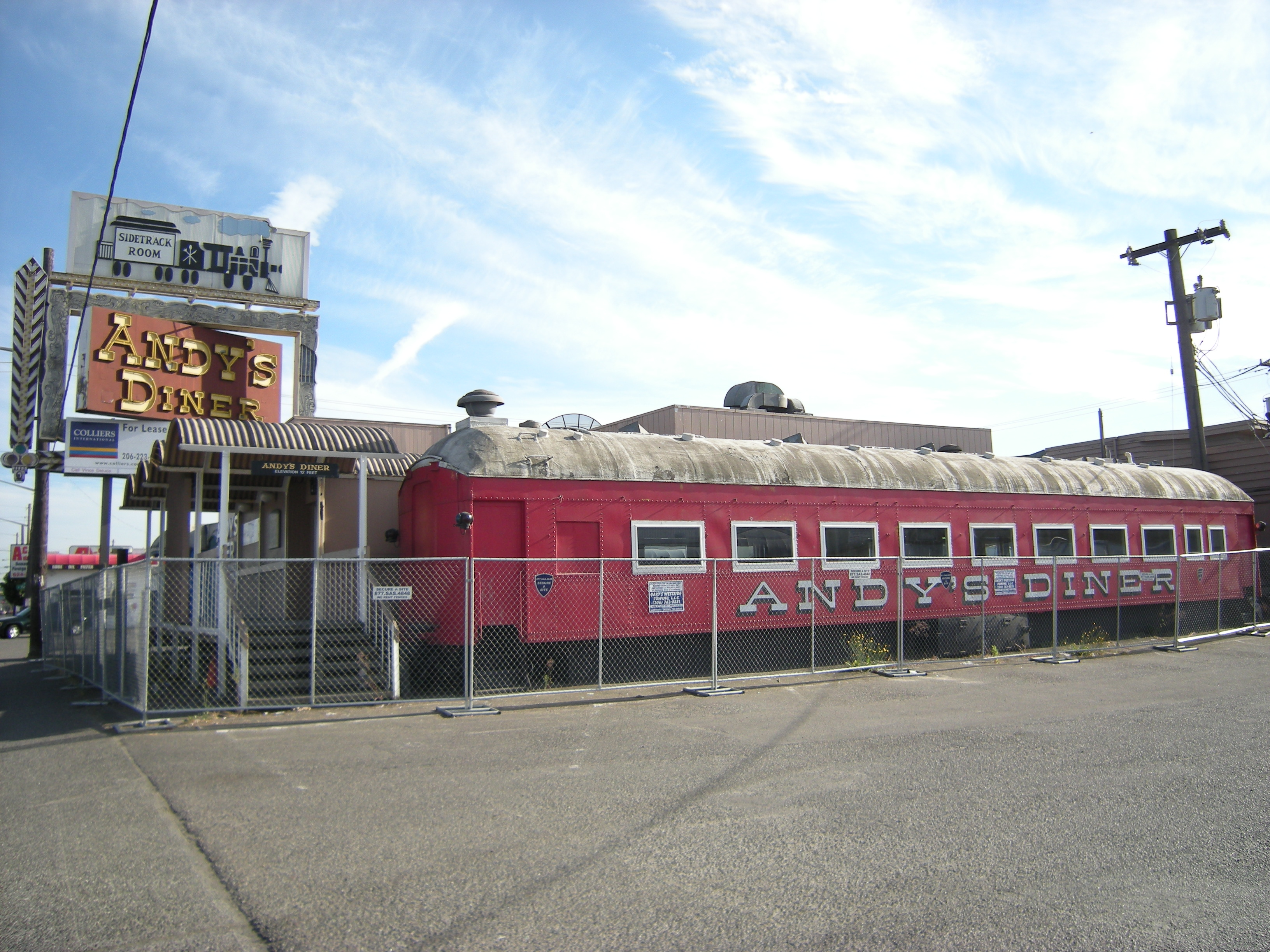 The recently closed Andy's Diner, 2963 4th Ave. S, Sodo, Seattle, Washington. The diner, incorporating several railway cars, operated for over 50 years. See Gregory Roberts The end of the line for Andy's Diner in Seattle, Seattle Post-Intelligencer, January 22, 2008.